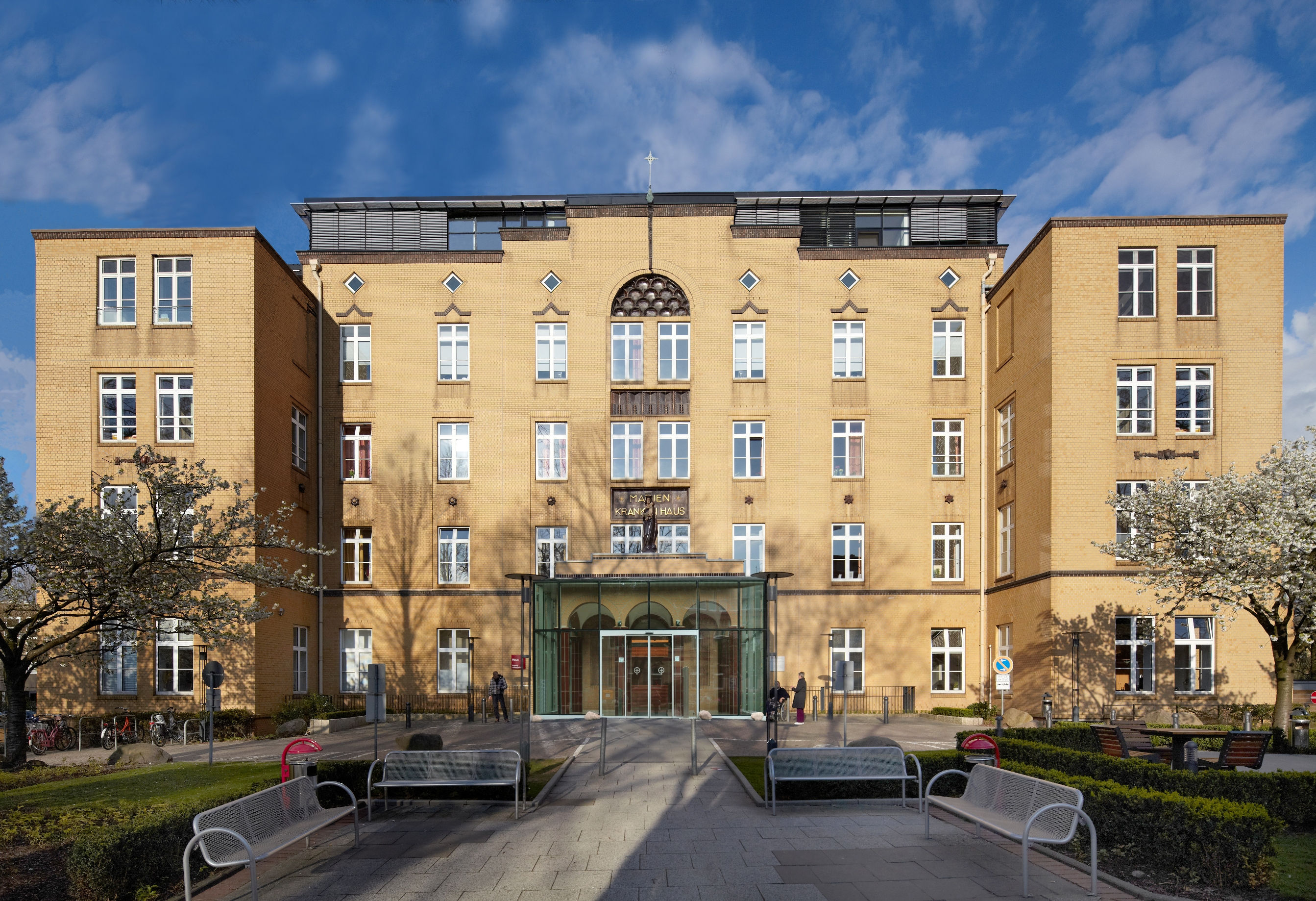 Haupteingang des Marienkrankenhauses mit neuem Windfang